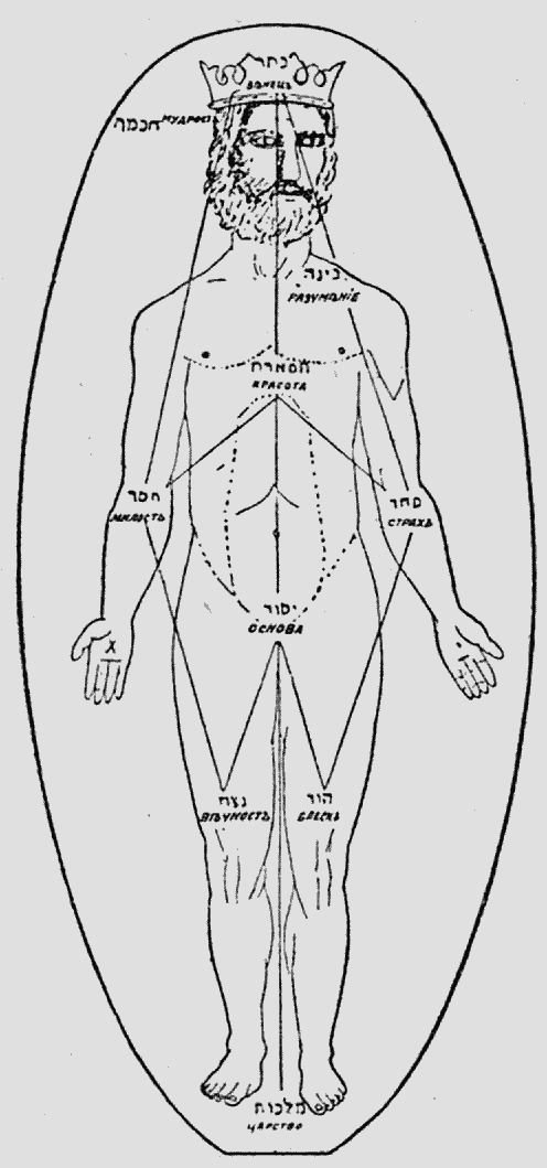 Illustration from Brockhaus and Efron Jewish Encyclopedia (1906—1913)